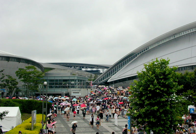 Sekisui Heim Super Arena (right), sub-Arena (left) & Miyagi Stadium